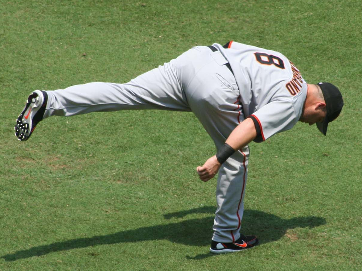 Shea Hillenbrand